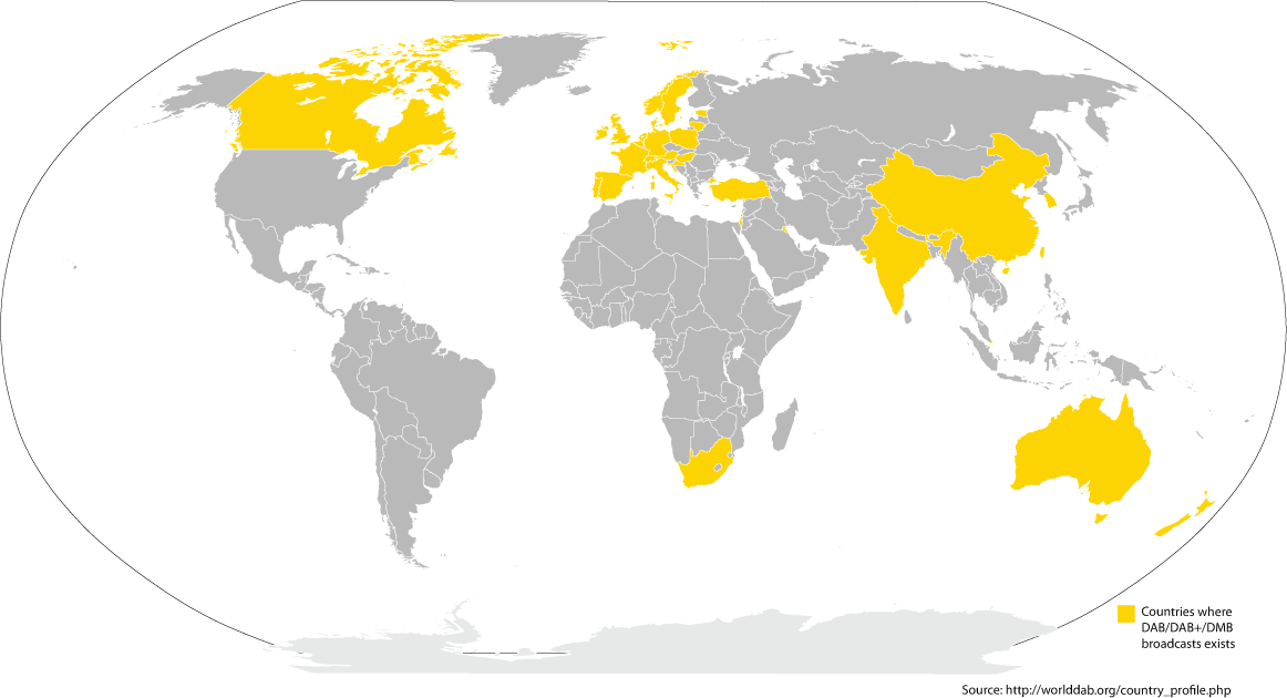 DAB radio transmissions globally. Based on this world map: Image:BlankMap-World.png